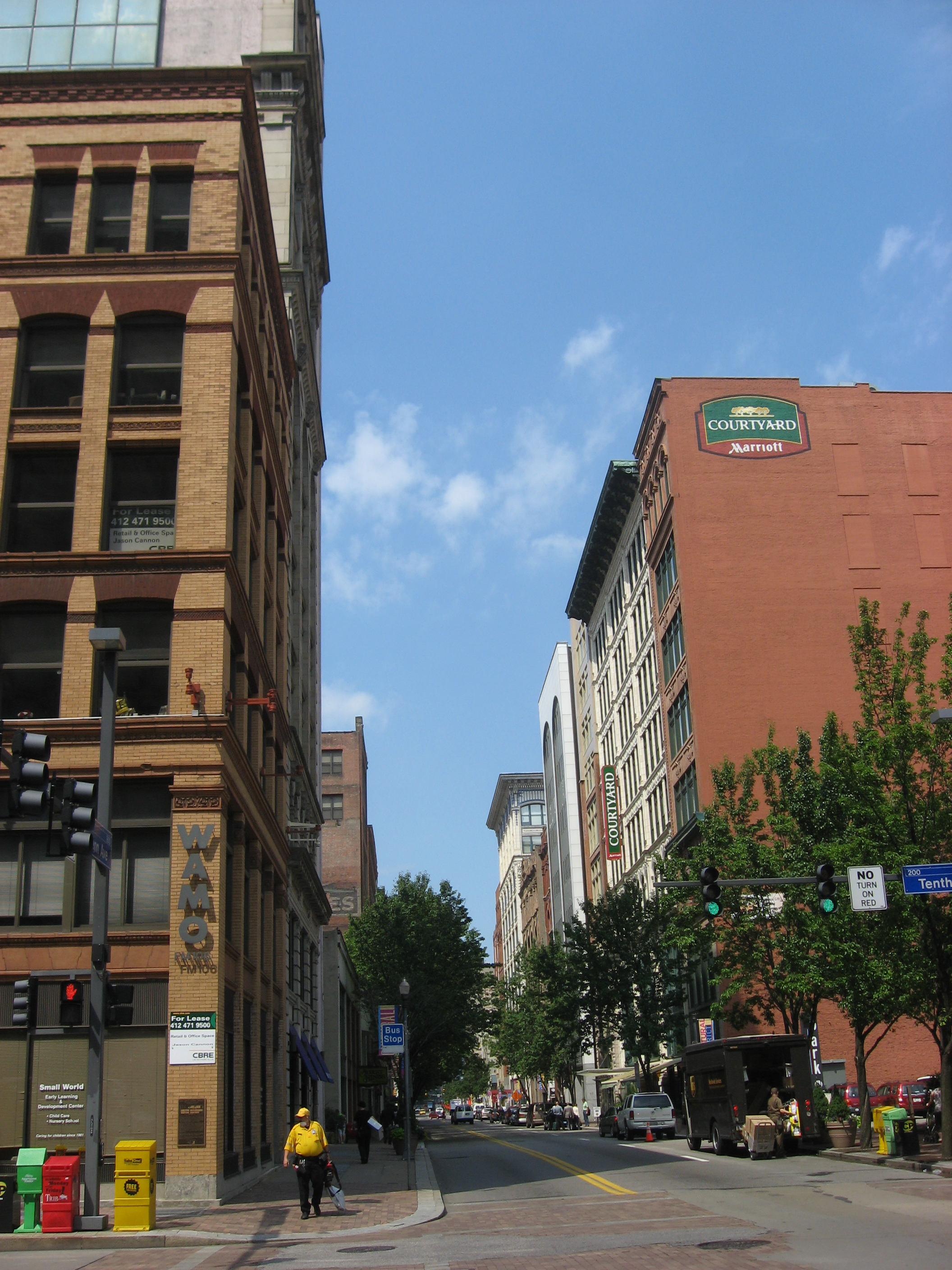 Buildings in the 900 block of Penn Avenue in downtown Pittsburgh, Pennsylvania, United States. The buildings pictured are part of the Penn-Liberty Historic District, which is listed on the National Register of Historic Places.